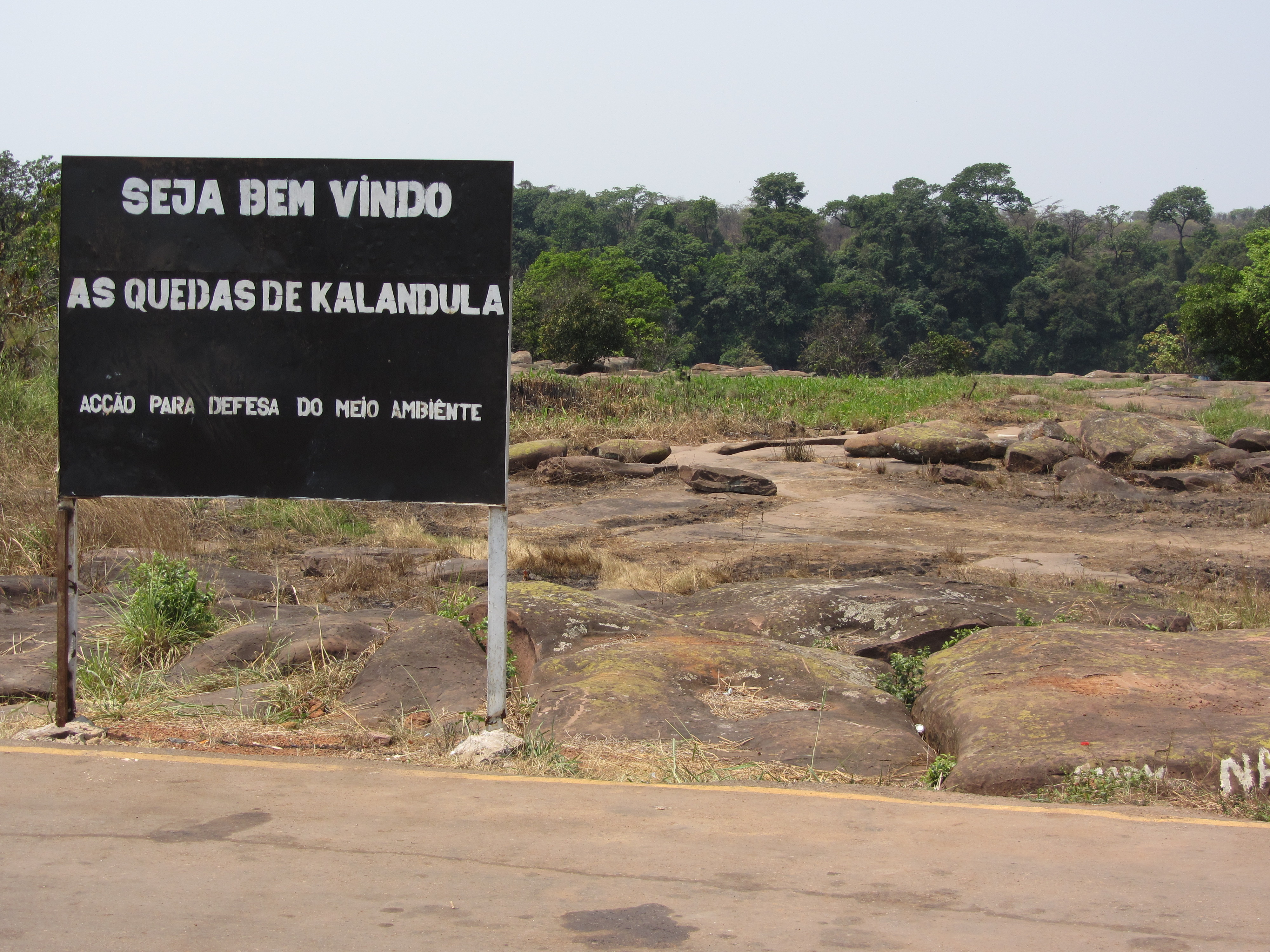 Welcome to the Kalandula Waterfalls